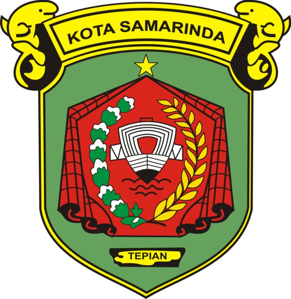 Logo of Samarinda City